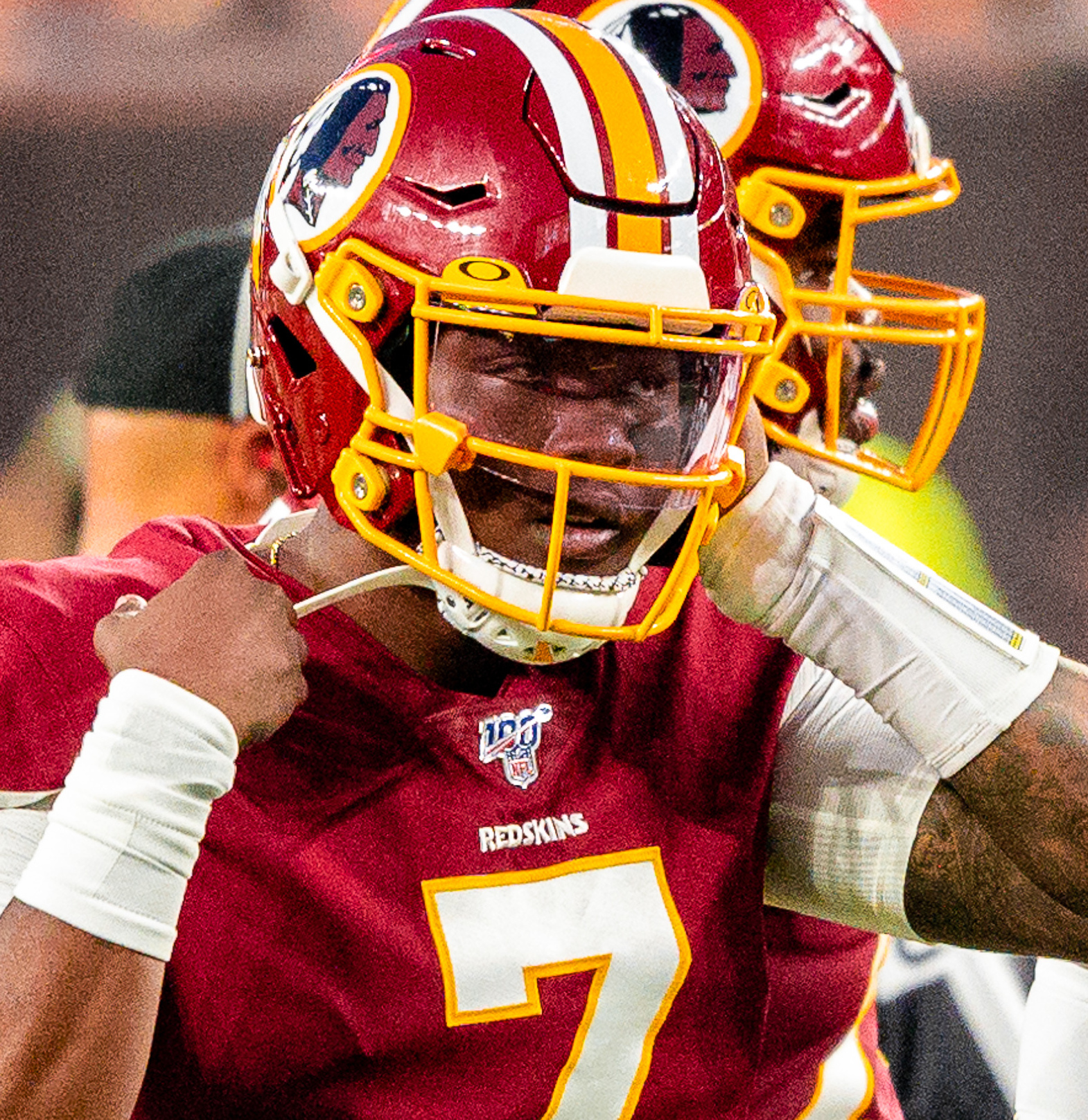 Washington Redskins players, Dwayne Haskins and Ereck Flowers, in a preseason game against the Cleveland Browns on August 8, 2019